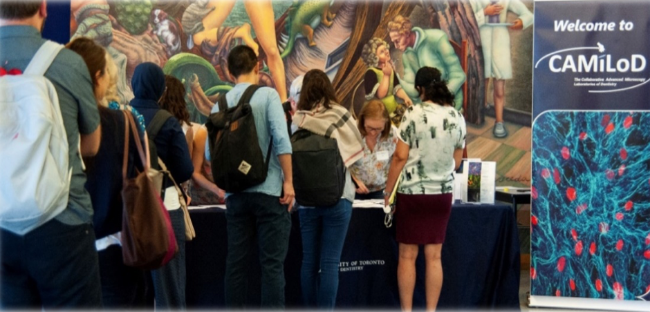 Researchers and Students signing for CAMiLoD's Events & Workshops